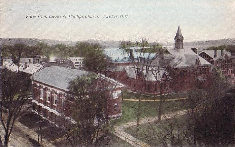 View from tower of Phillips Church, Exeter, New Hampshire. At right is the 3rd Academy Building, designed by the Boston architectural firm of Peabody & Stearns. It was built to replace the 2nd Academy Building, which burned on December 20, 1870, and would itself burn on July 4, 1914. In the distance is the Squamscott River.